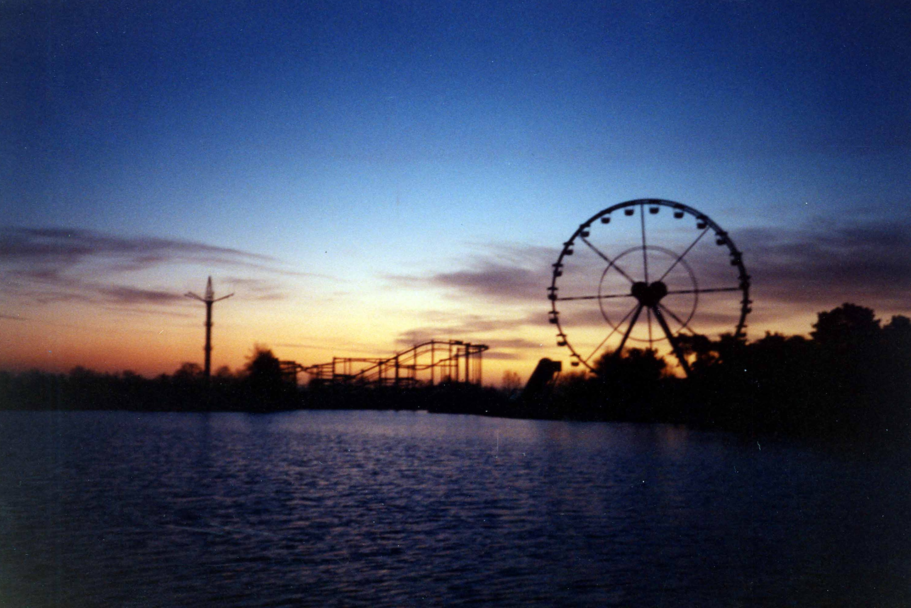 Bobbejaanland theme park in Belgium (early morning), 1988.